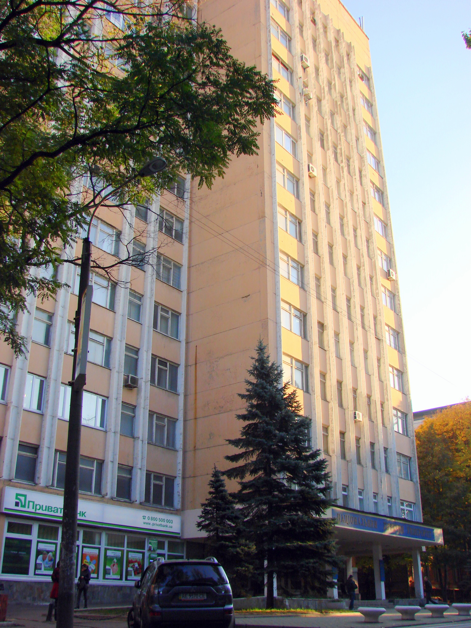 The 7th Corpus of the National Mining University of Ukraine, Dnipropetrovsk, Ukraine